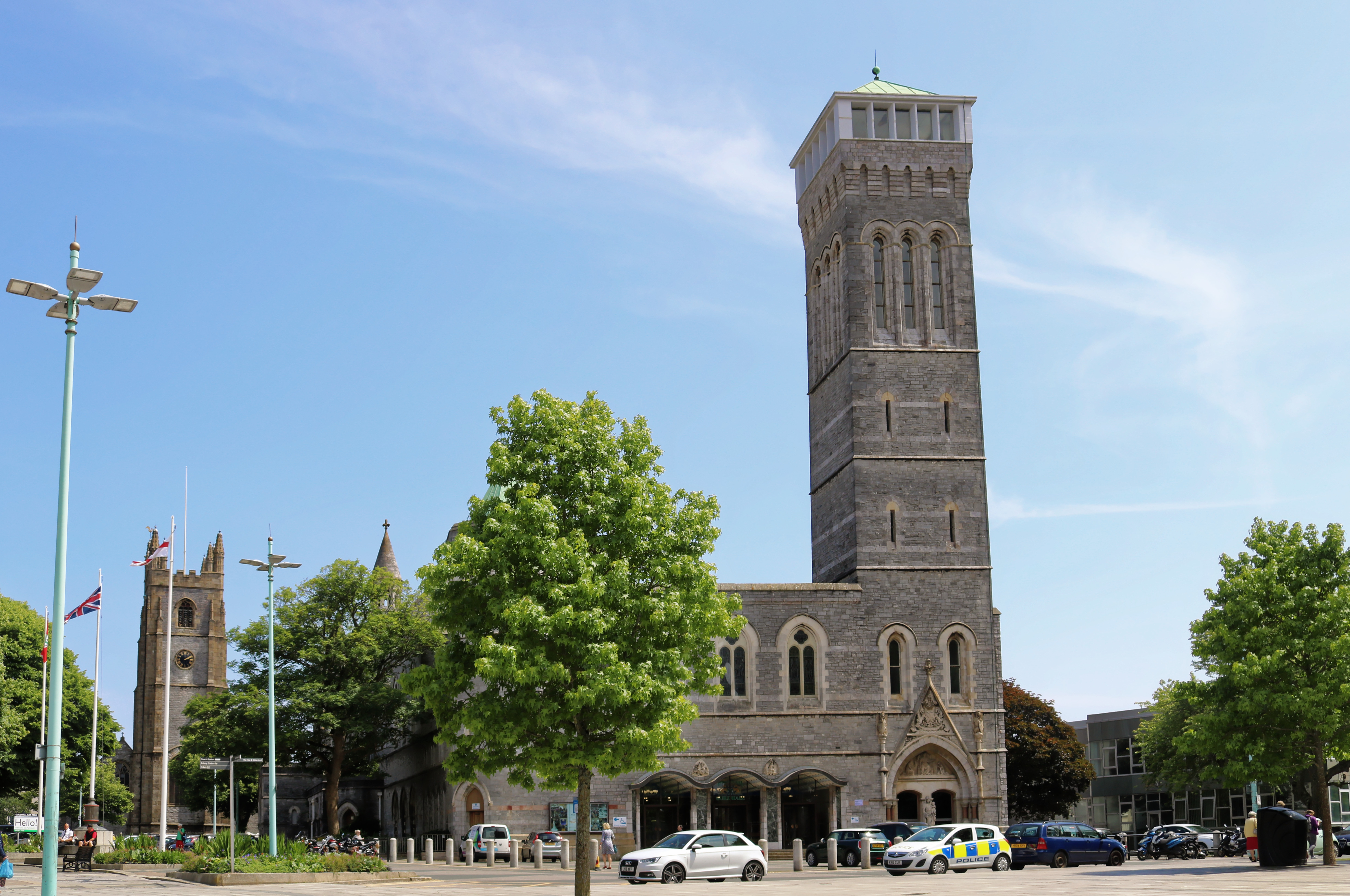 Picture of Plymouth Guildhall